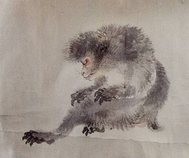 Painting of a Japanese macaque by 19th century samurai Kazan Watanabe